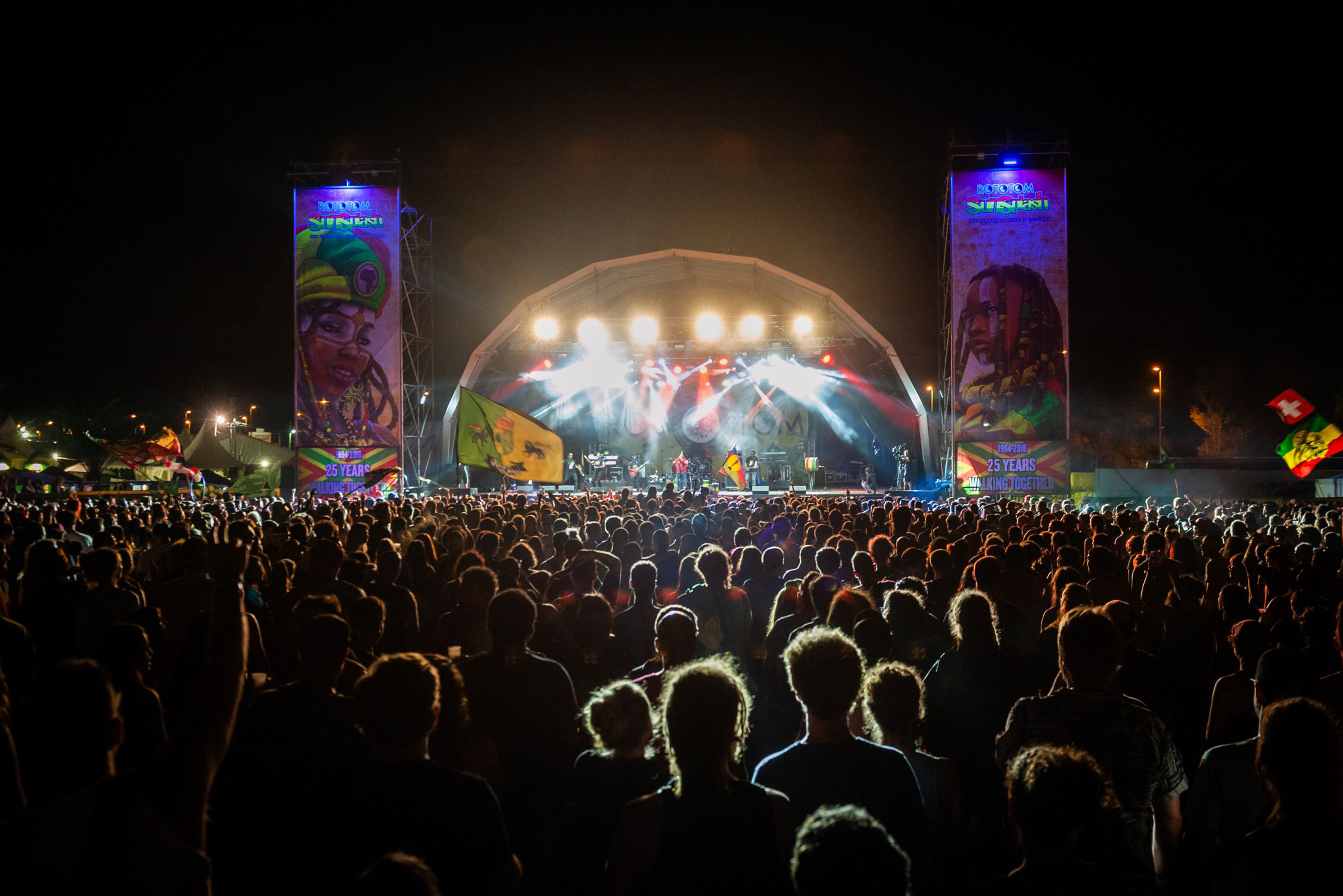 Rototom Sunsplash 2018 Main Stage, Aug 22, Benicasim (Spain)